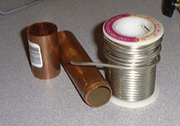 Example of lead-free solder